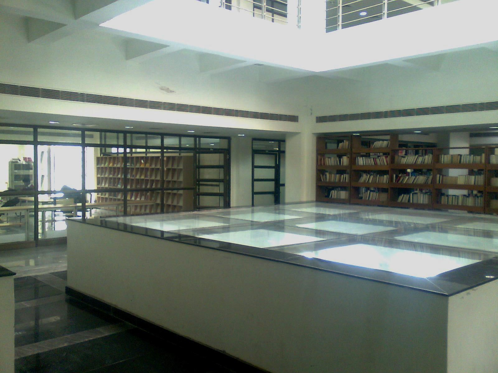 University Information Resource Center of GGSIPU